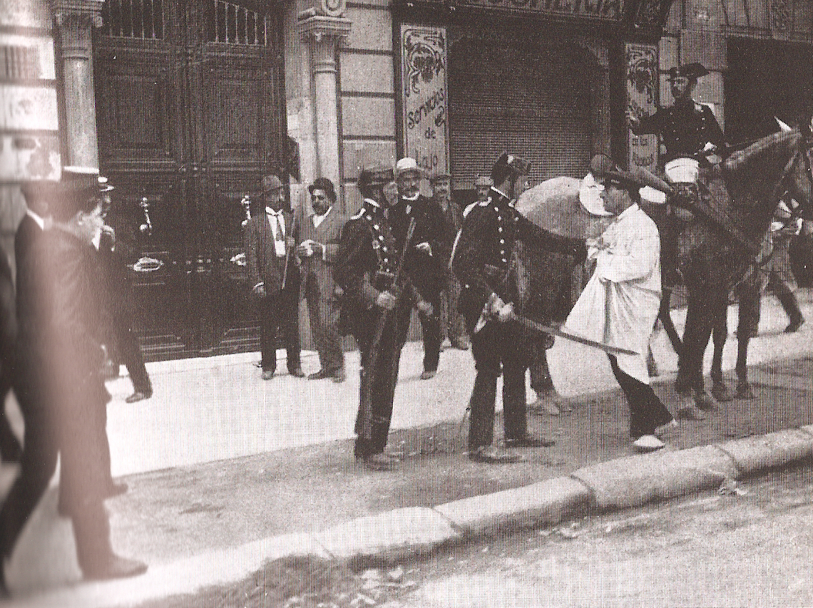 Civil Guards round up some of the 1,000 suspects arrested during the "Tragic Week" in Barcelona, Spain.